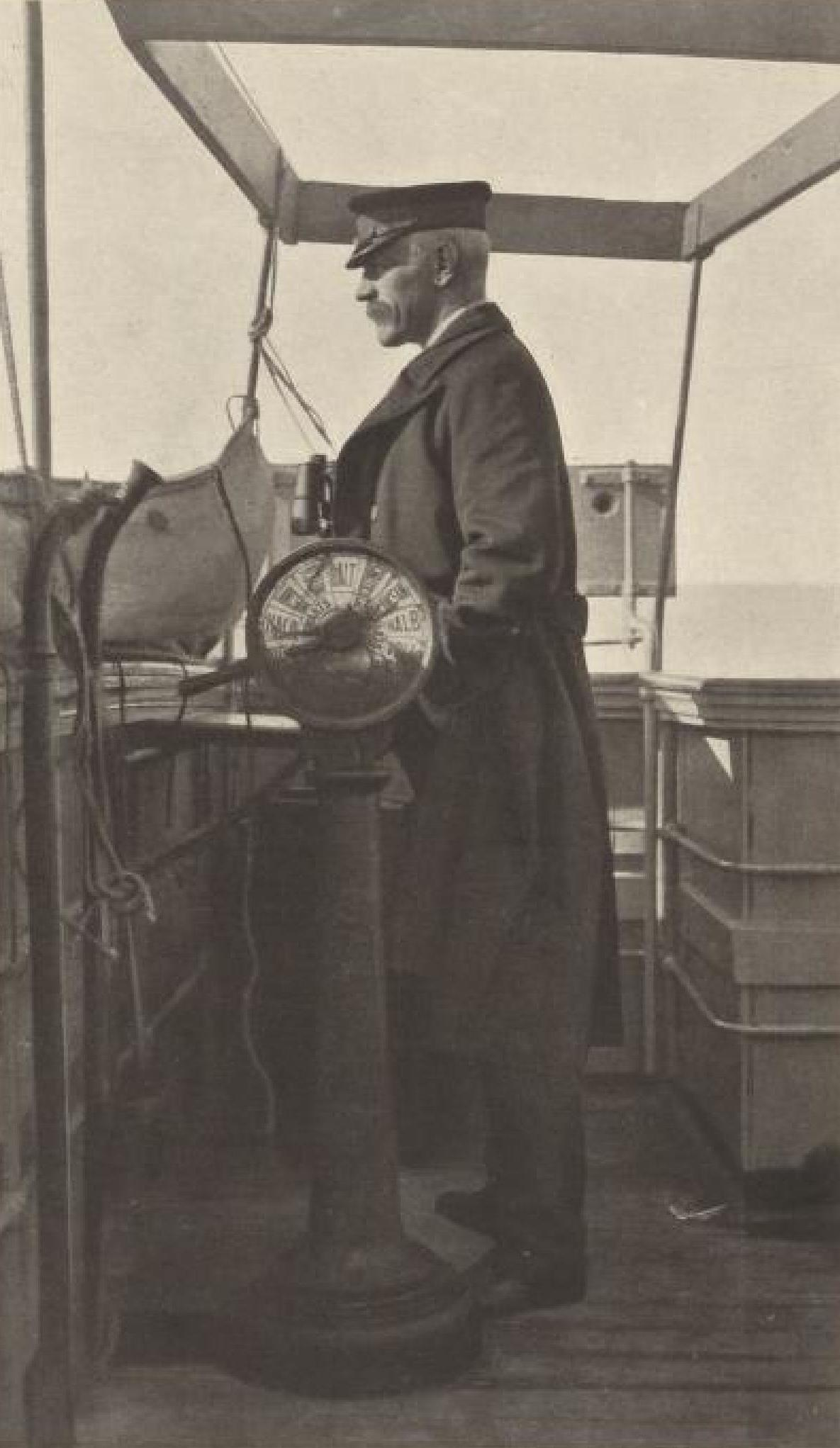 Nansen F. - Through Siberia. The Land of the Future - 1914